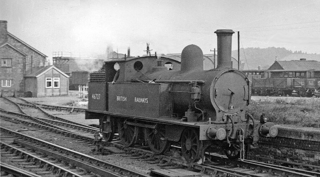 Craven Arms & Stokesay Station: LNW 2-4-2T in goods yard. View SW, towards Hereford, also Knighton and Central Wales Line. Ex-London & North Western 1P 2-4-2T No. 46727, used for local work.